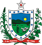 Coat of arms of the state of Paraíba, Brazil.